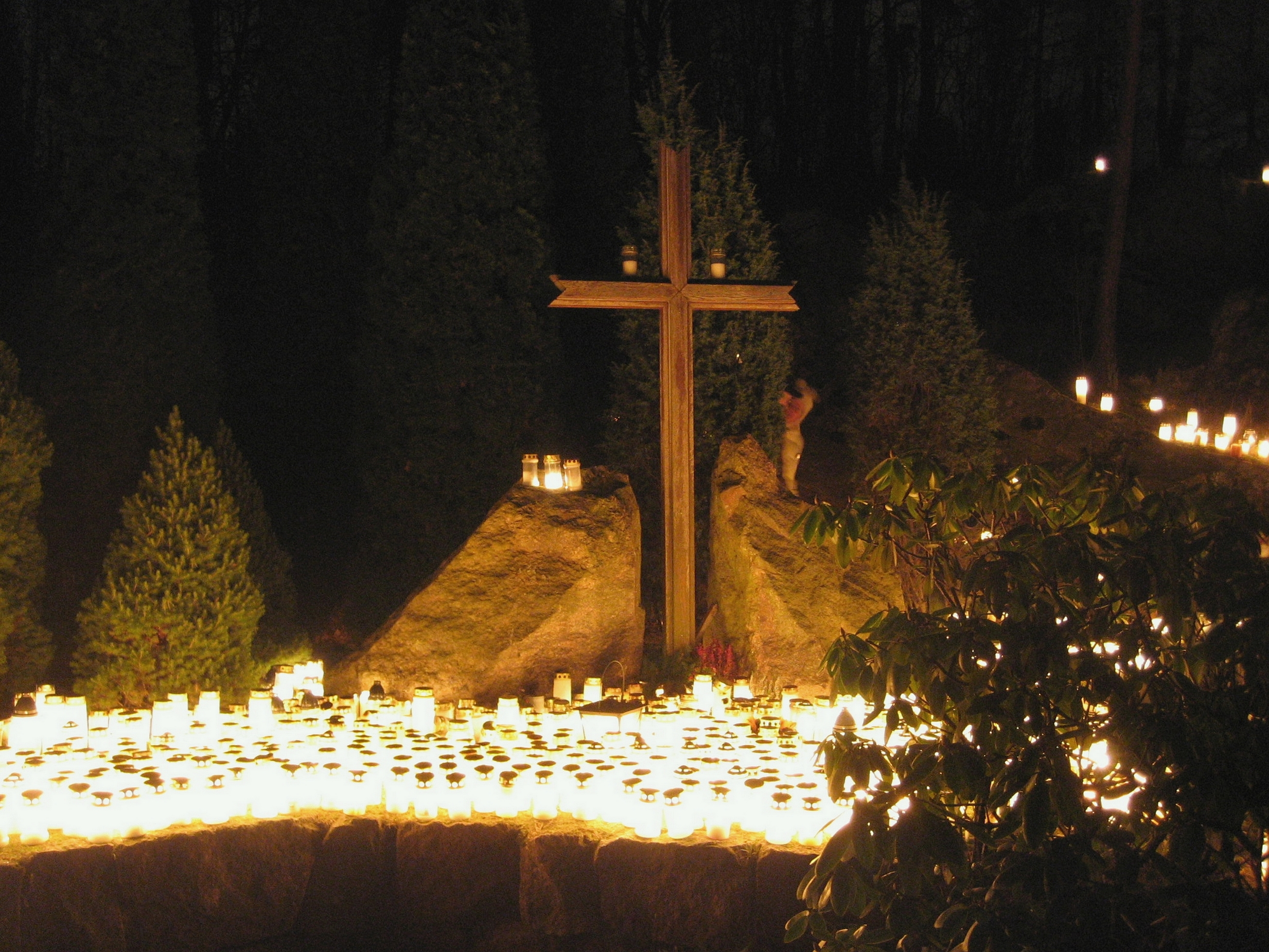 Hundreds of candles brought to a Christian Cross at the Malmi Cemetery in Helsinki, Finland on the Christmas Eve. It is a tradition to bring candles to graves on the Christmas Eve and All Saints' Day to remember the dead.